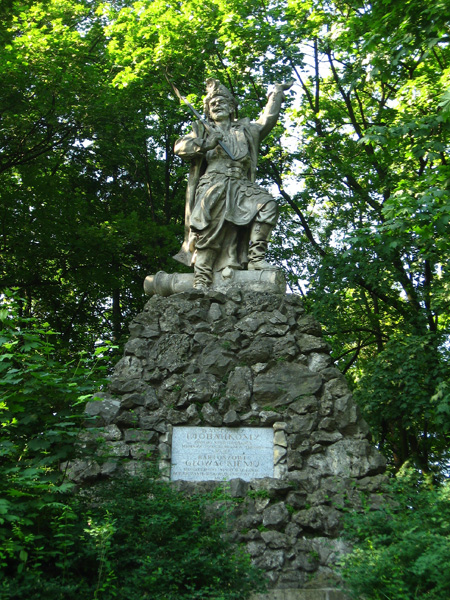 Memorial for Glowacki in Lviv